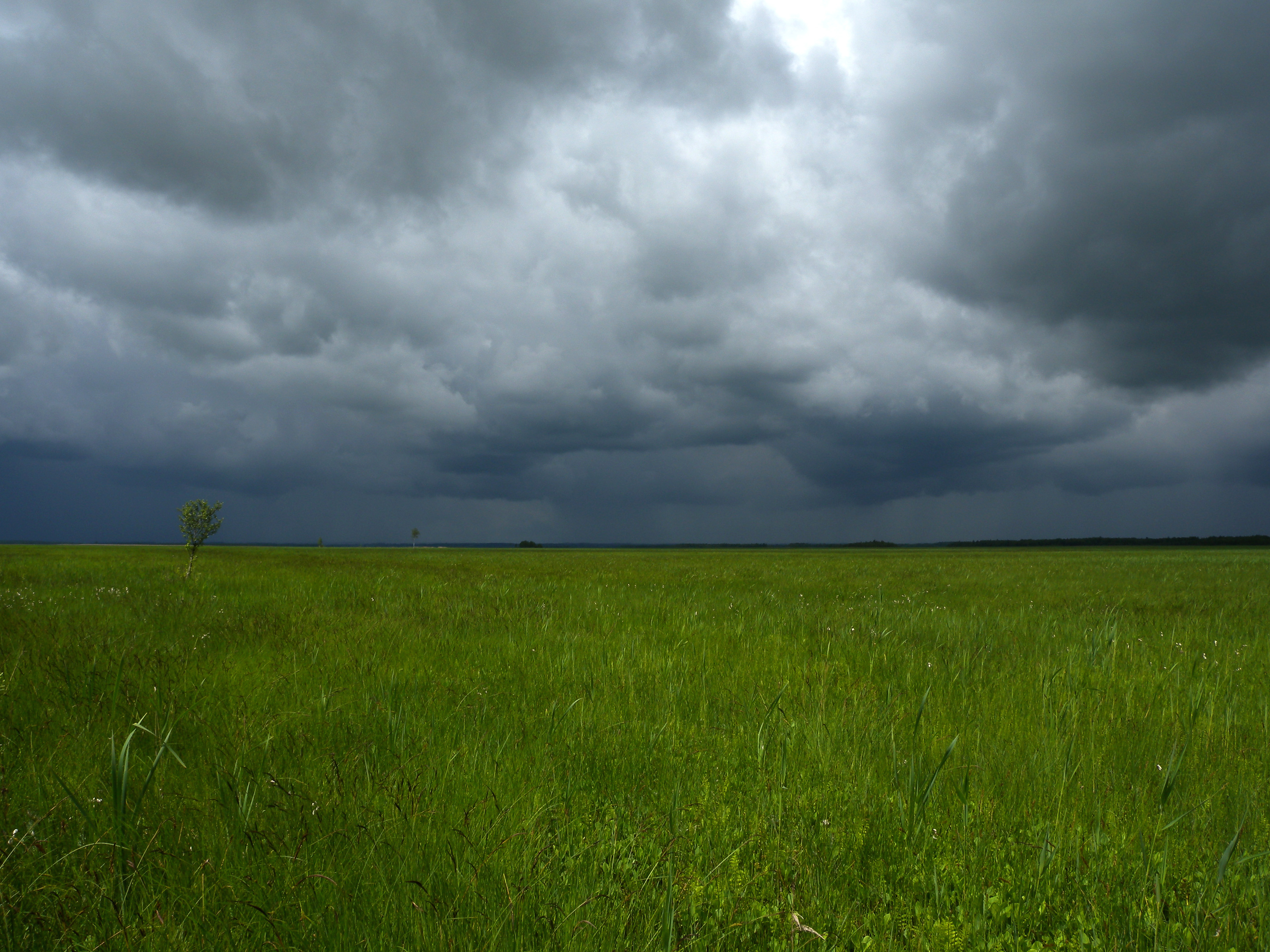 Rainclouds over Bagno Ławki, Biebrza National Park, Poland